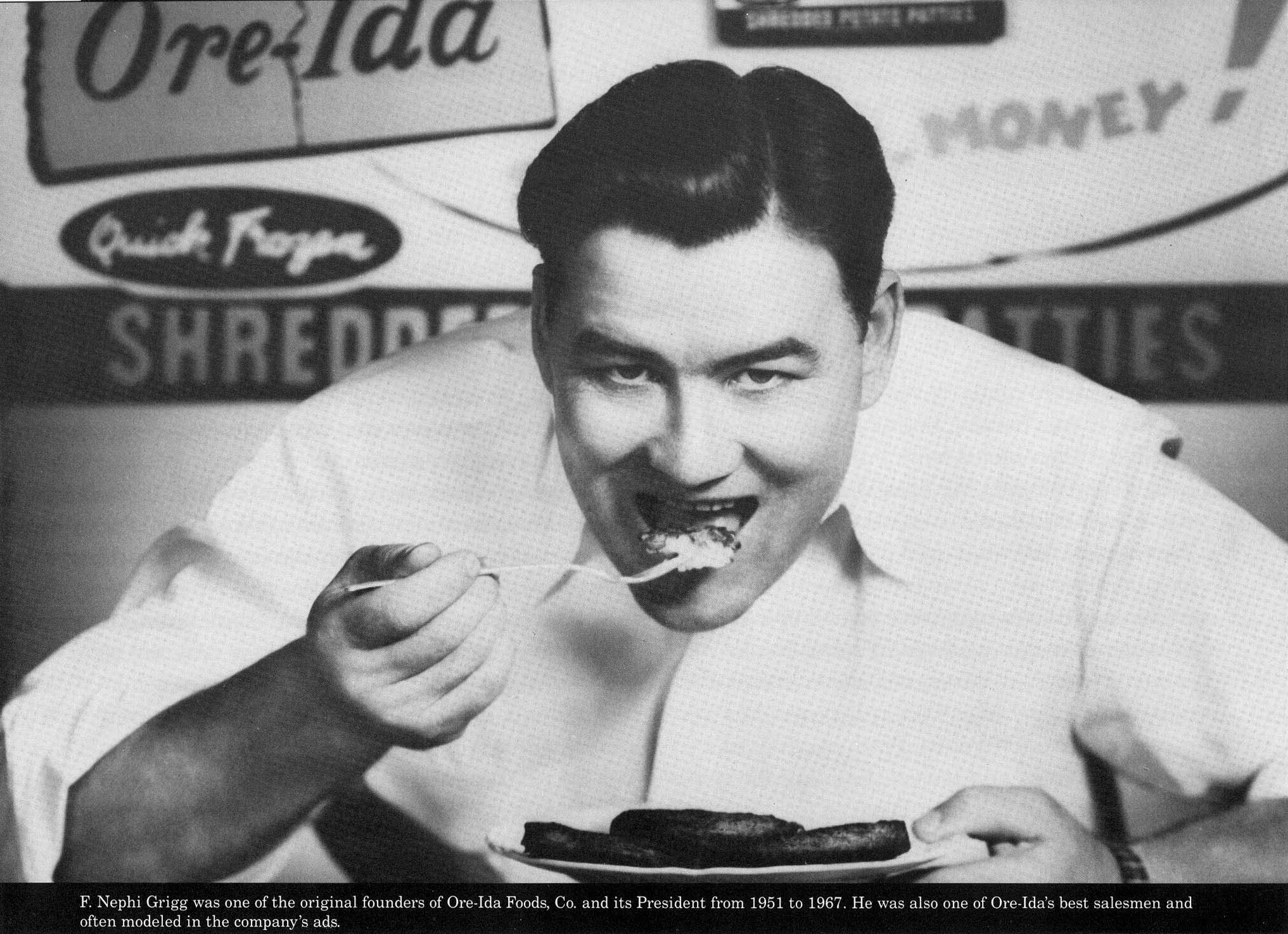 Nephi Grigg, Tater Tots inventor and Ore-ida founder